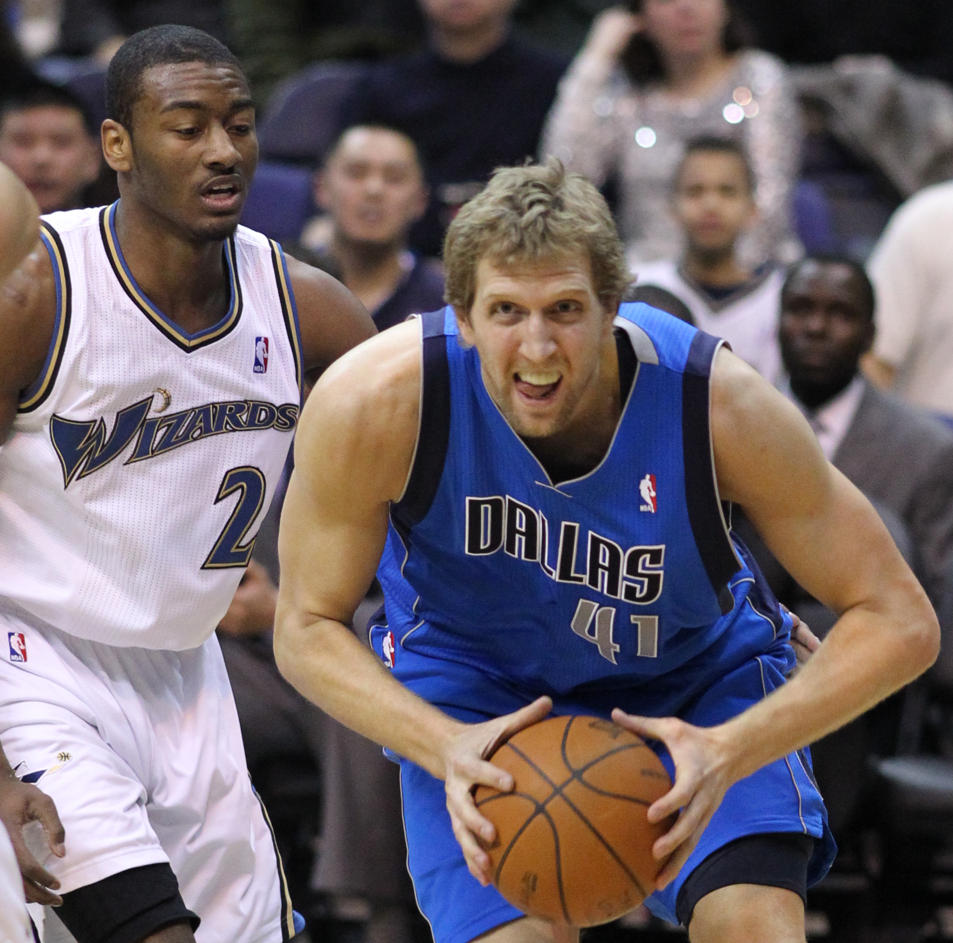 Dirk Nowitzki and John Wall, Wizards v/s Mavericks 02/26/11